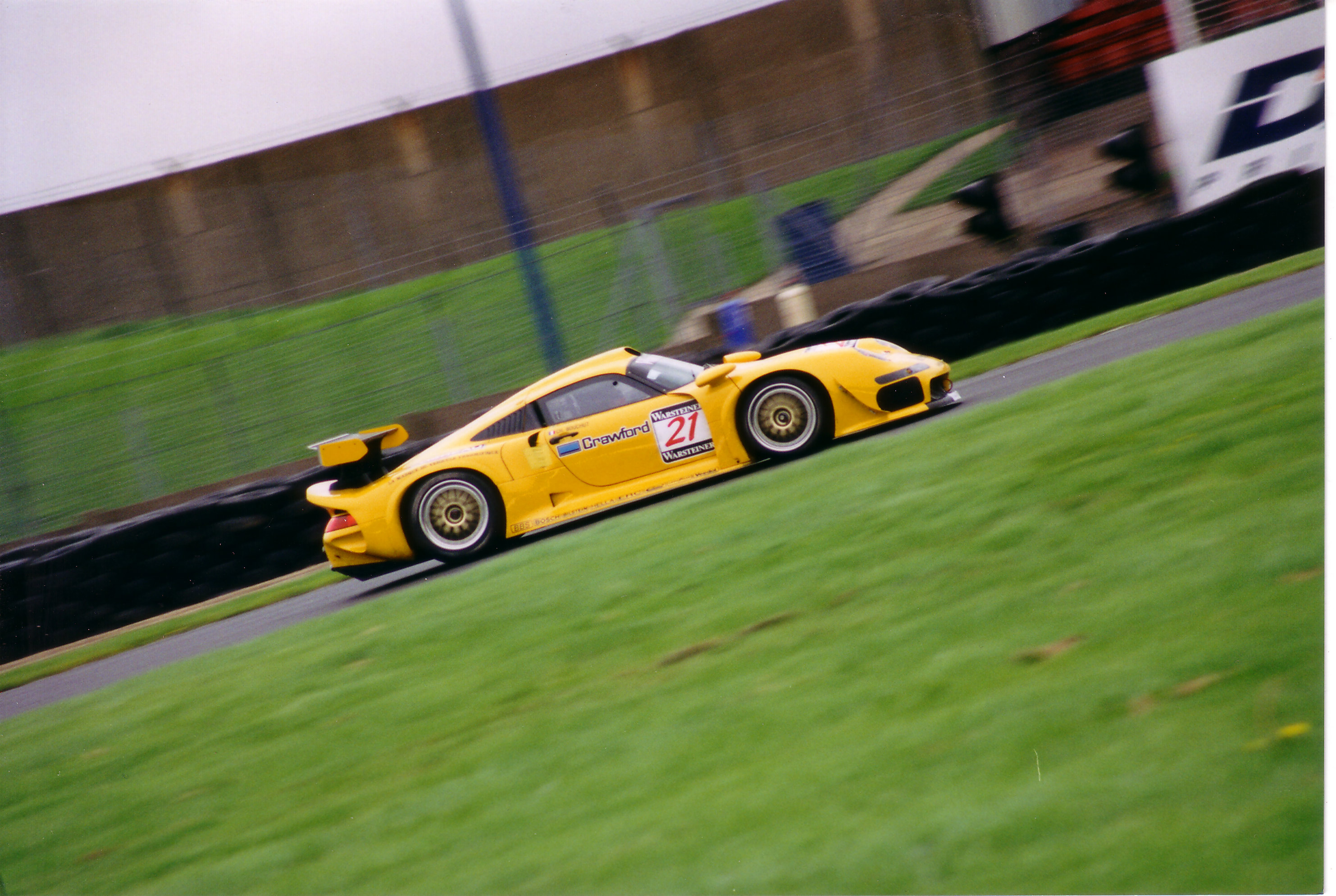 Donnington 12/9/1997 Scanned from 35mm Canon EOS 100